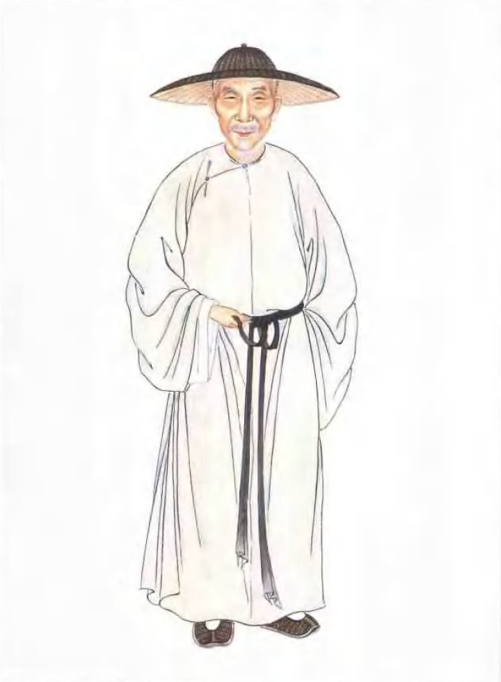 Qian Qianyi (1582–1664) was a noted late Ming official, scholar and social historian.